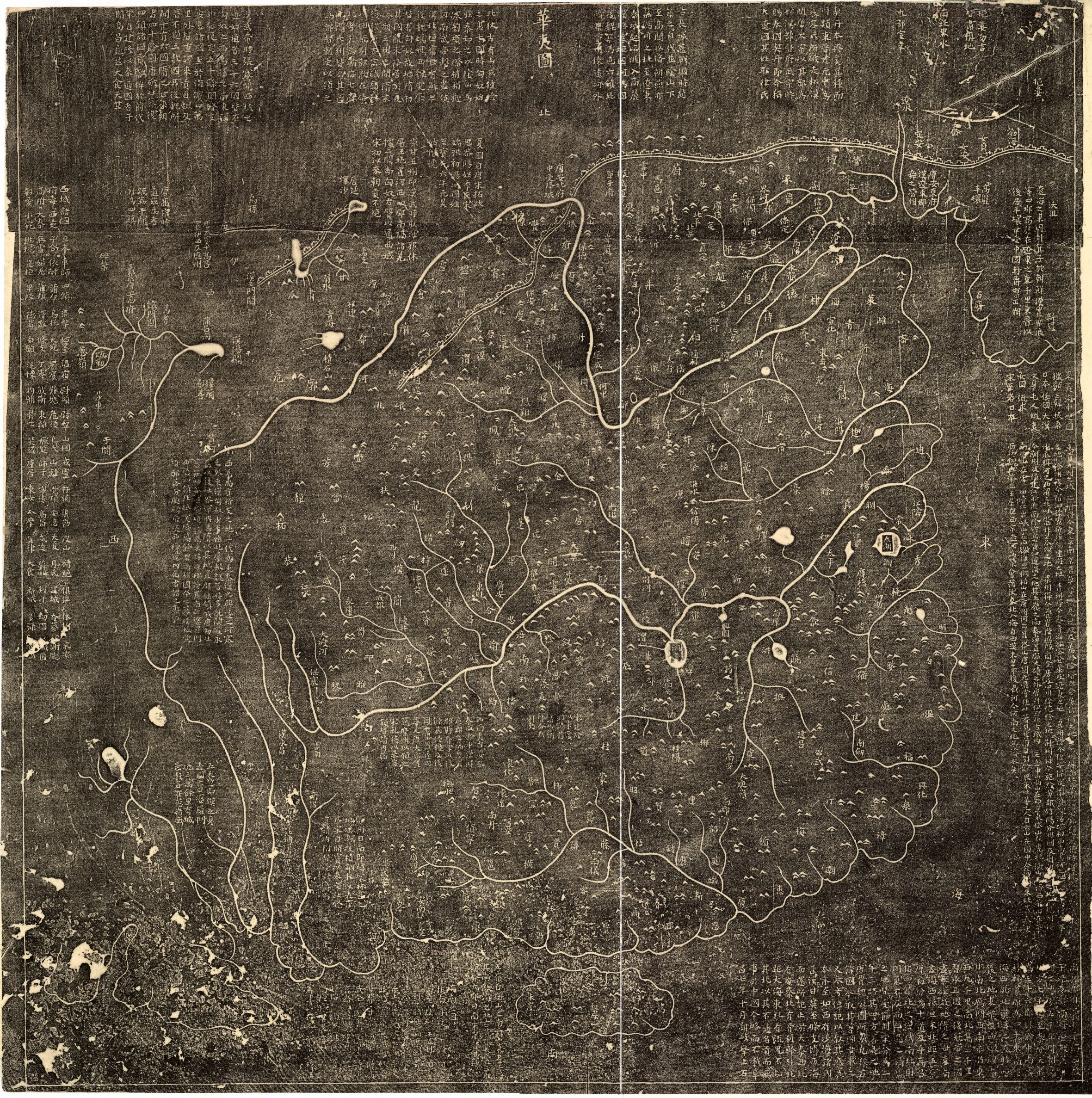 Stone rubbing dated 1933(?) of a 1136/1137 map of China currently housed in the Forest of Stone Steles Museum in Xi'an, China.粵語: 華夷圖拓本